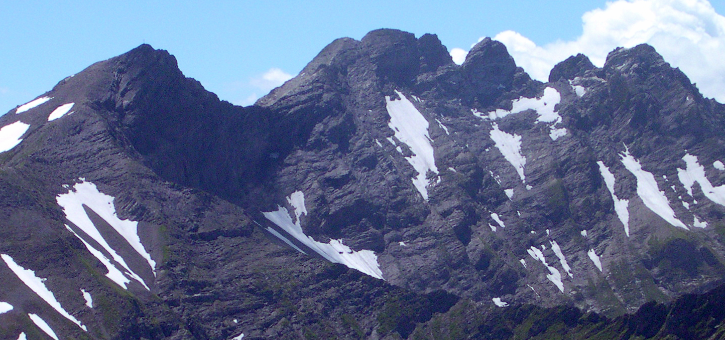 reight to left: Vorder Grauspitz (Rätikon, CH/FL, 2599 m), the highest mountain in Liechtenstein and Hinter Grauspitz (also: Schwarzhorn) (2574m) from northeast.